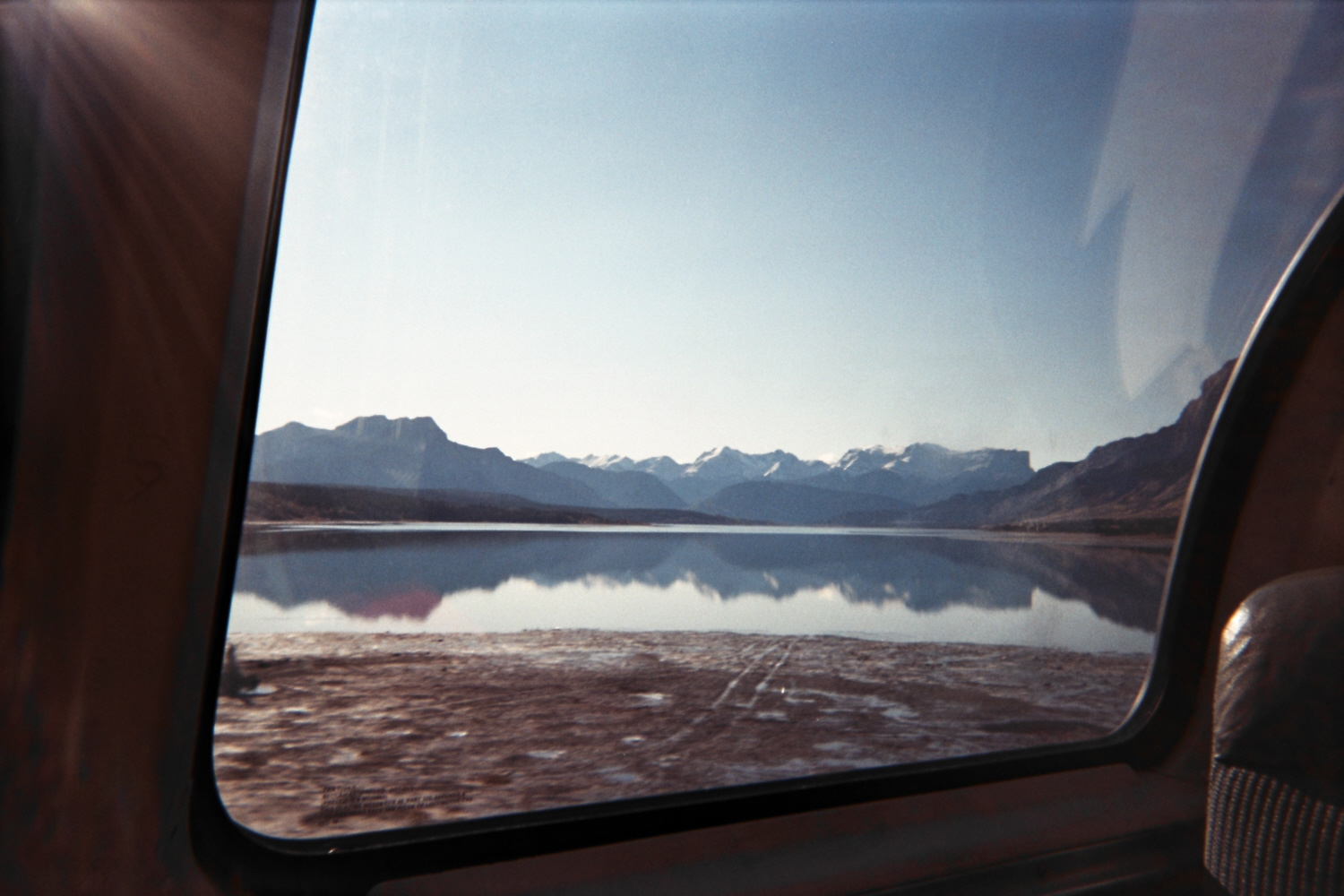 Jasper Lake, as seen from the dome car, with sand dunes in the foreground and the mountains in the background. The dunes are the only such dune system in the Canadian Rockies.